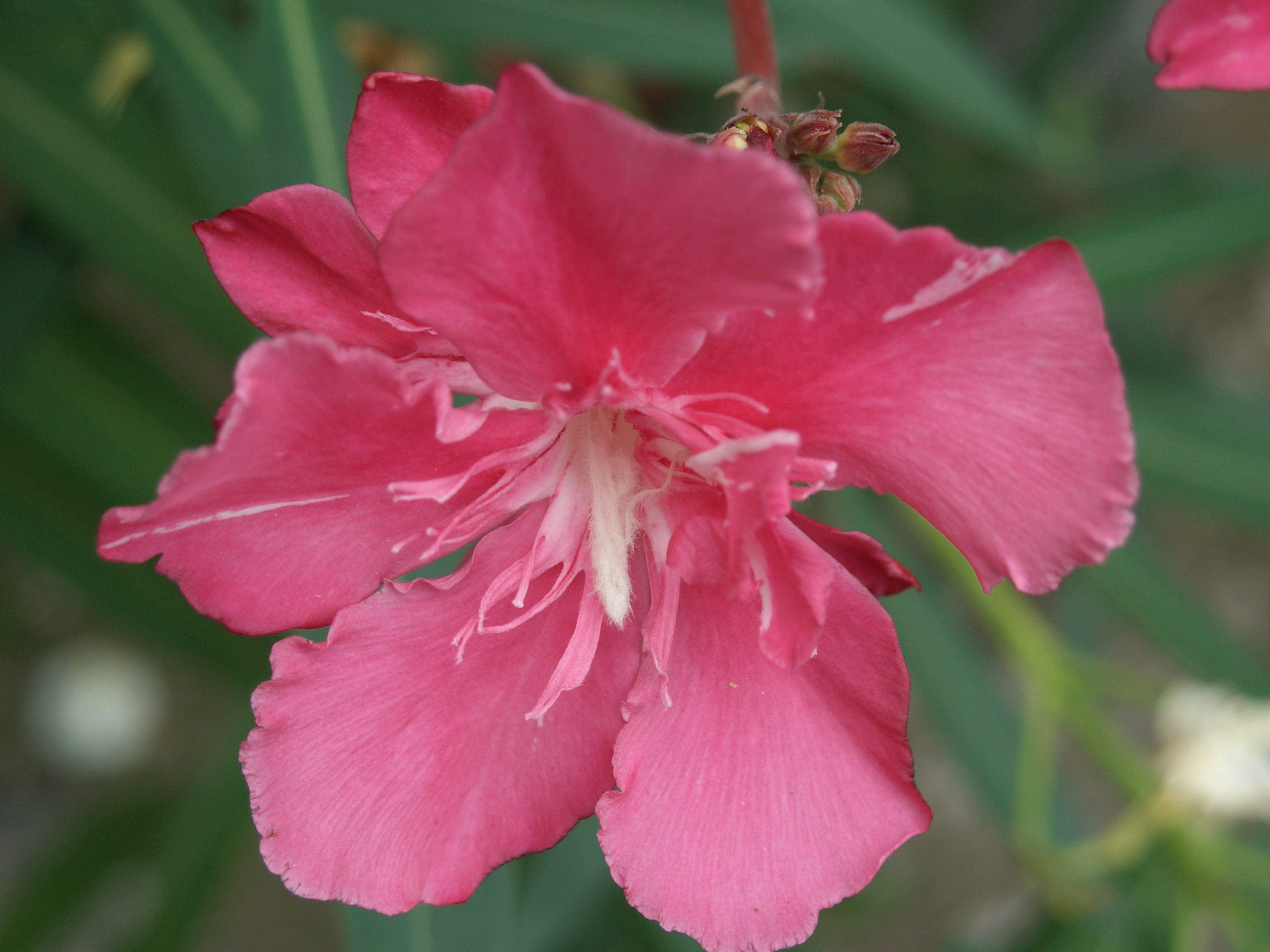 pink flower. Because of the depth of field, the background is blurred